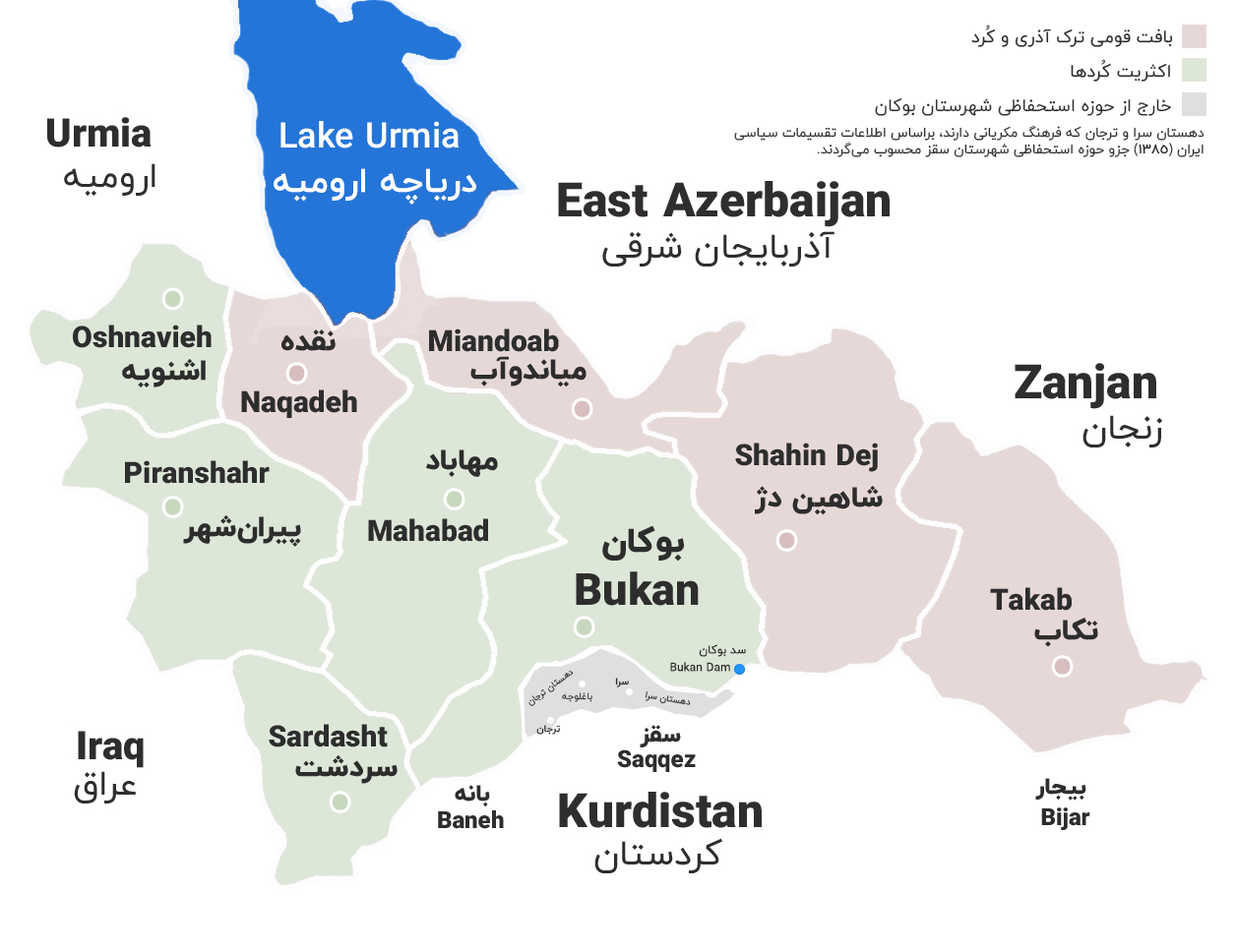 Mukriyan in West Azerbijan